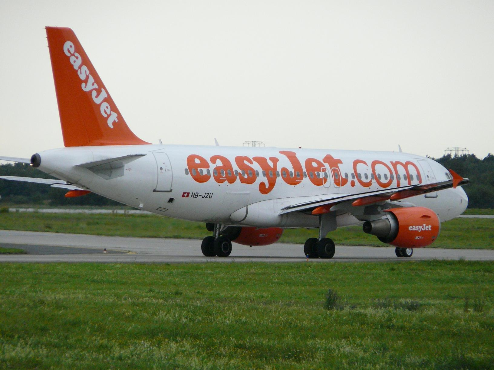 Easy Jet Airbus A319-111 (HB-JZU) on taxiway at Dresden Airport.